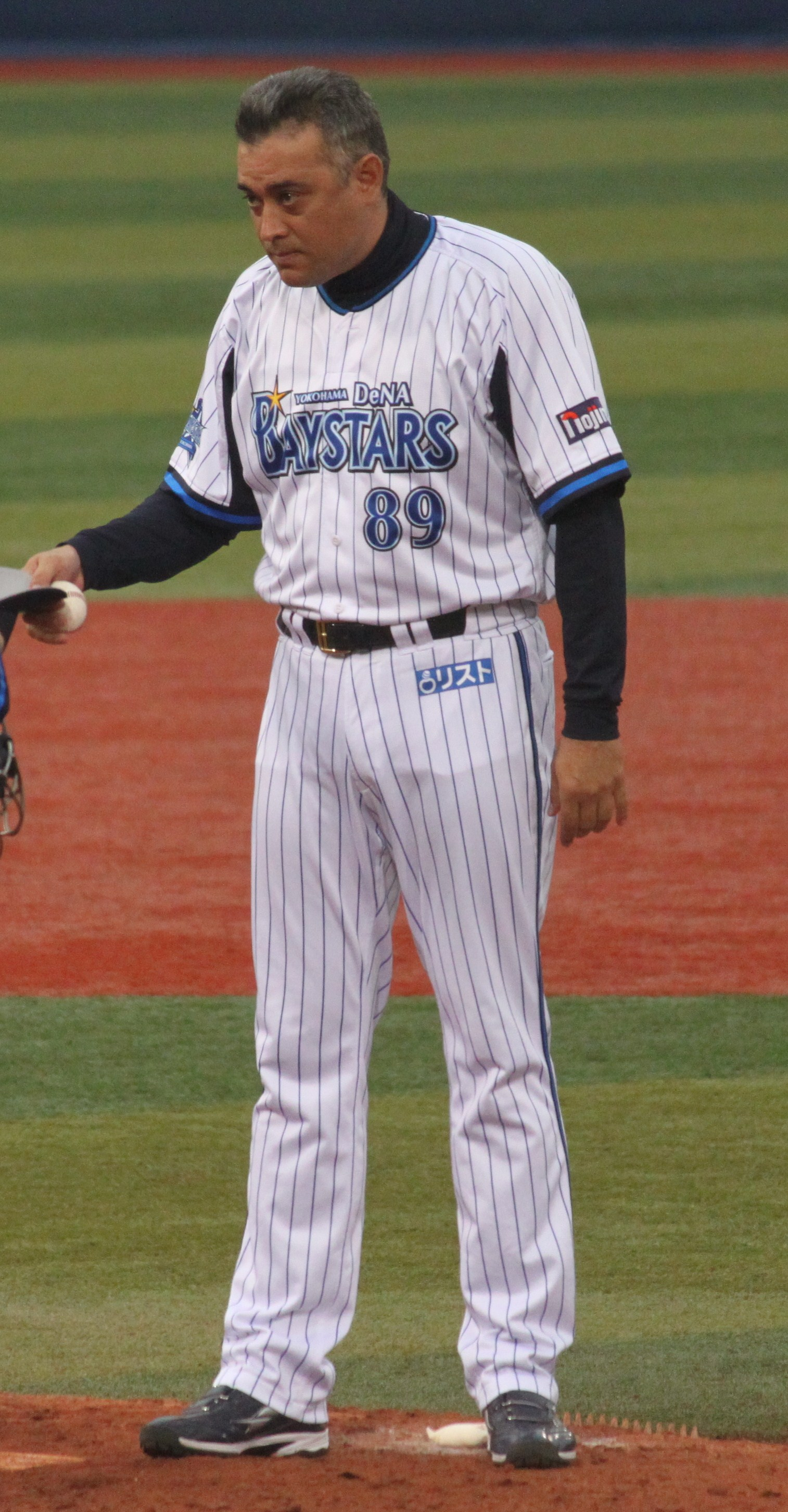 Yui Tomori, a.k.a. Denny Tomori, coach of the Yokohama DeNA BayStars, at Yokohama Stadium.